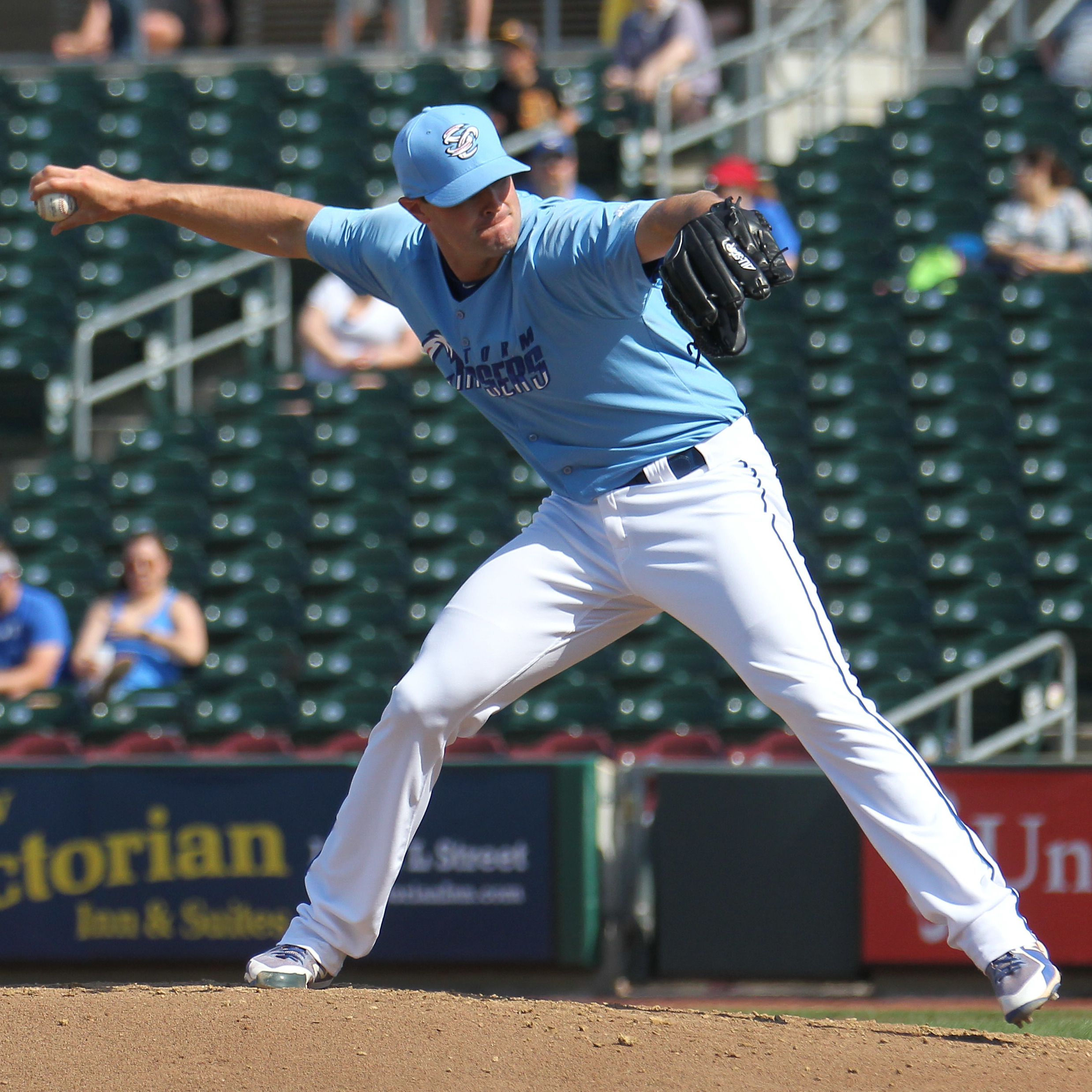 Mike Broadway pitching for the Omaha Storm Chasers in 2018